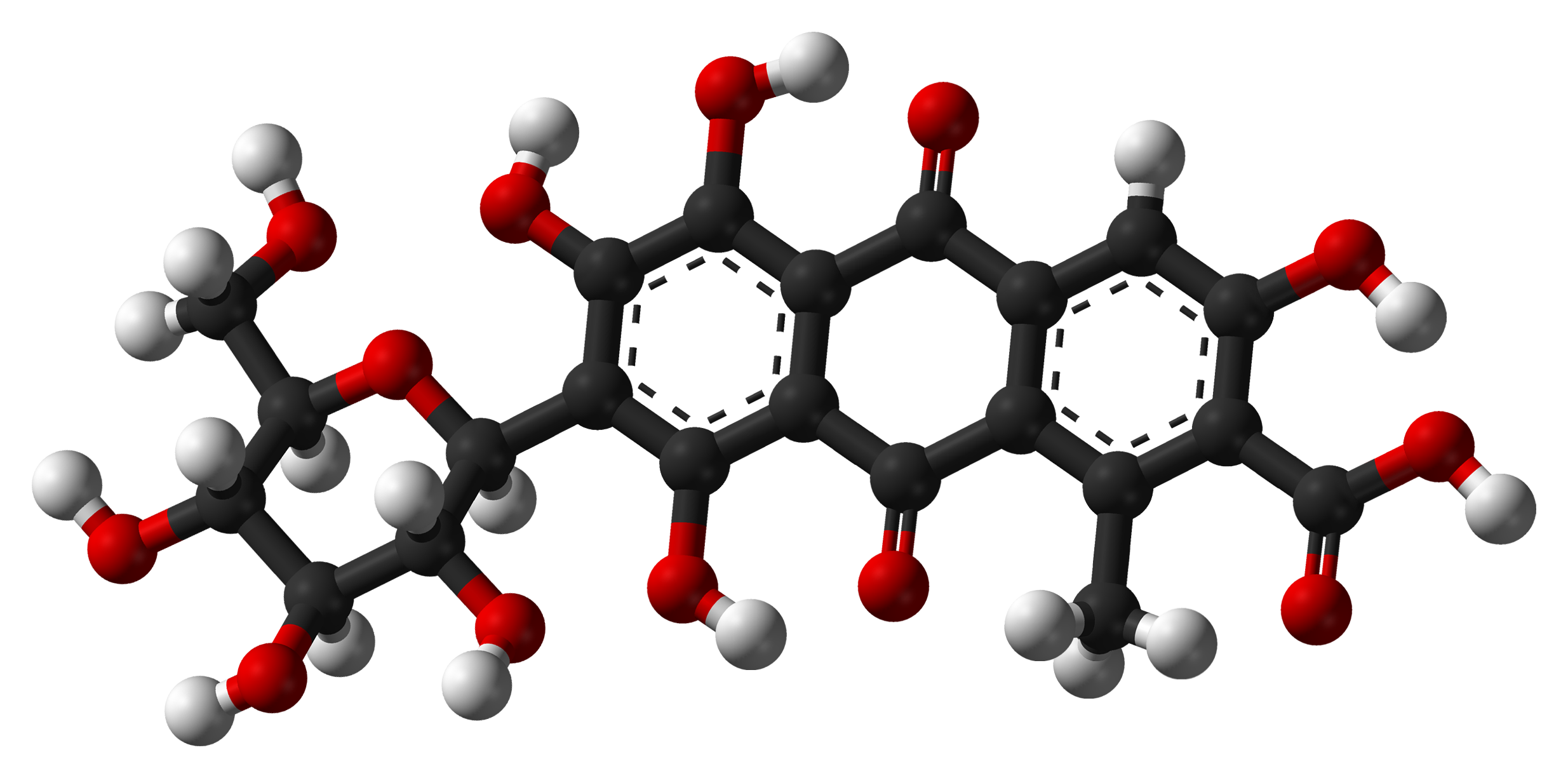 Ball-and-stick model of the carminic acid molecule, a pink food dye that is used in smoked salmon and angel cake.